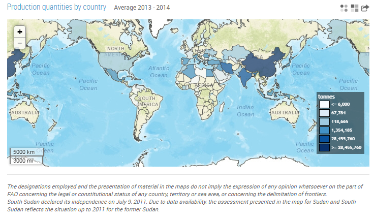 Eggplant production map FAOSTAT 2014